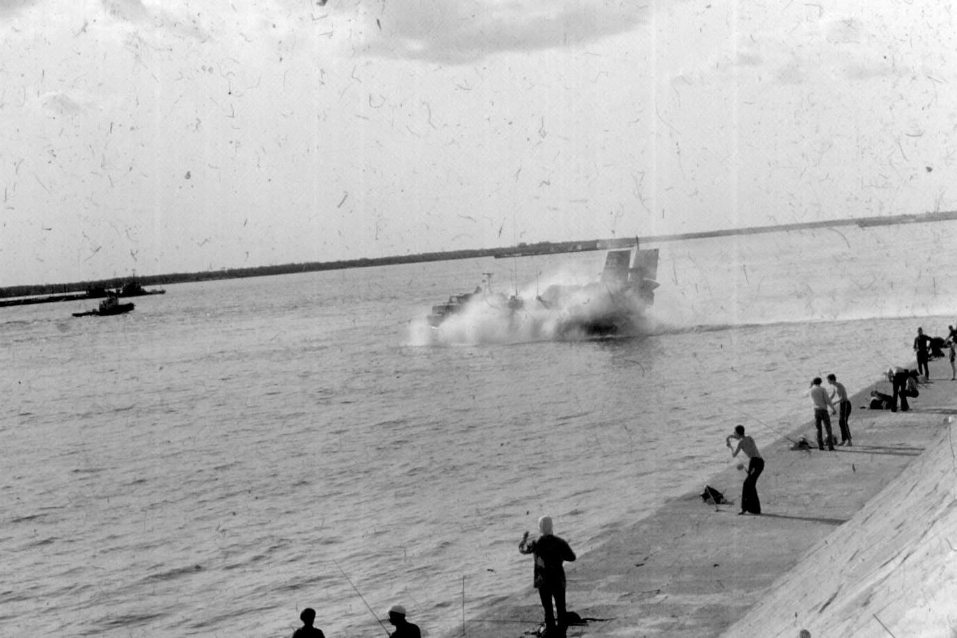 Десантный катер на воздушной подушке "Скат" проекта 1205 Амурской военной флотилии